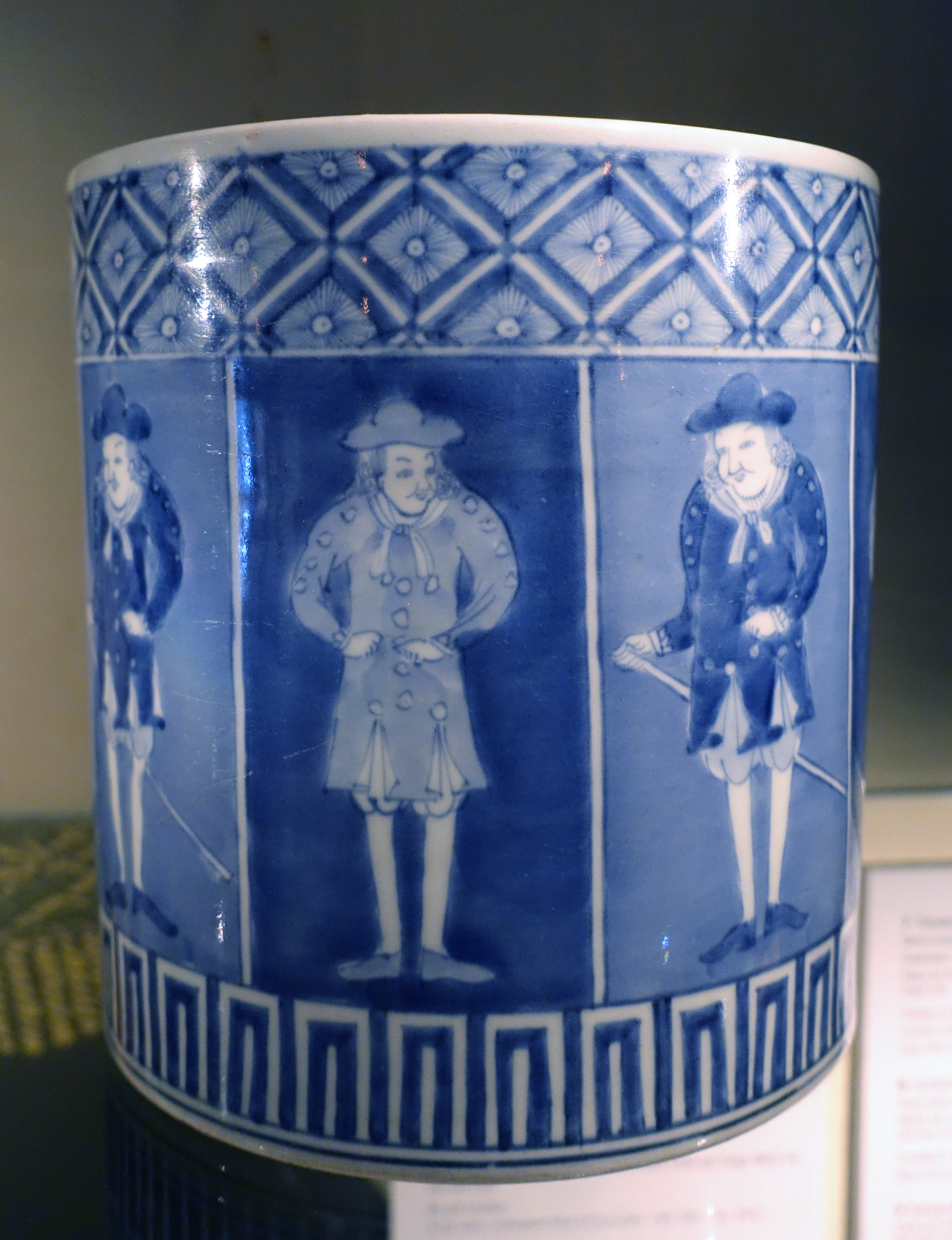 Japanese pottery in the Östasiatiska museet, Stockholm, Sweden. This item is old enough so that it is in the public domain. This is a photo of an artwork at the Museum of Far Eastern Antiquities in Sweden with the identifier: OM-1985-0023